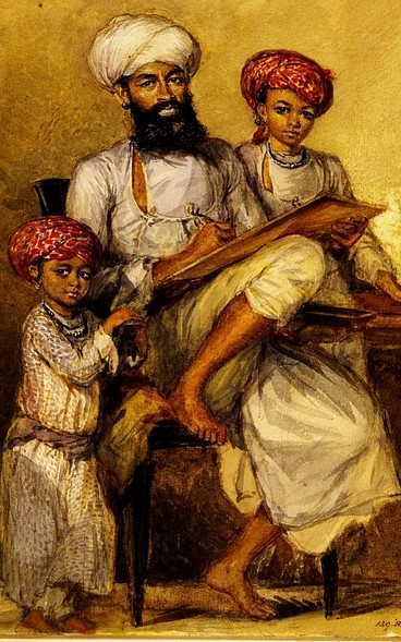 Tara Chand the court painter and his two sons, Shivalal and Mohanlal, by William Carpenter